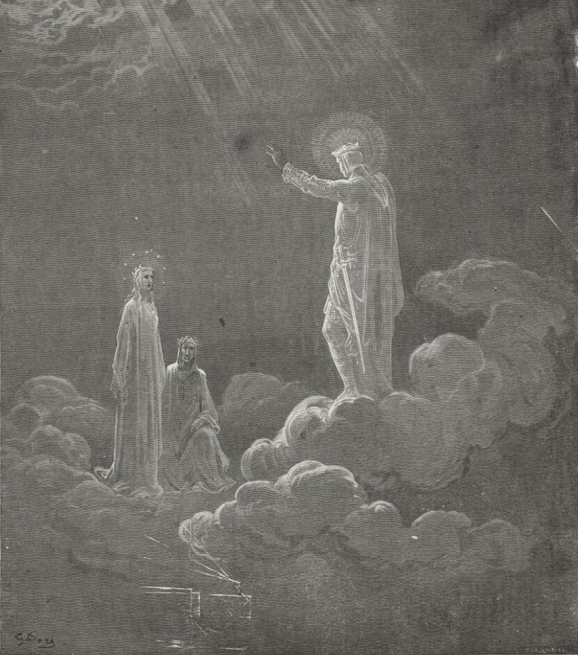 Paradise (Paradiso)